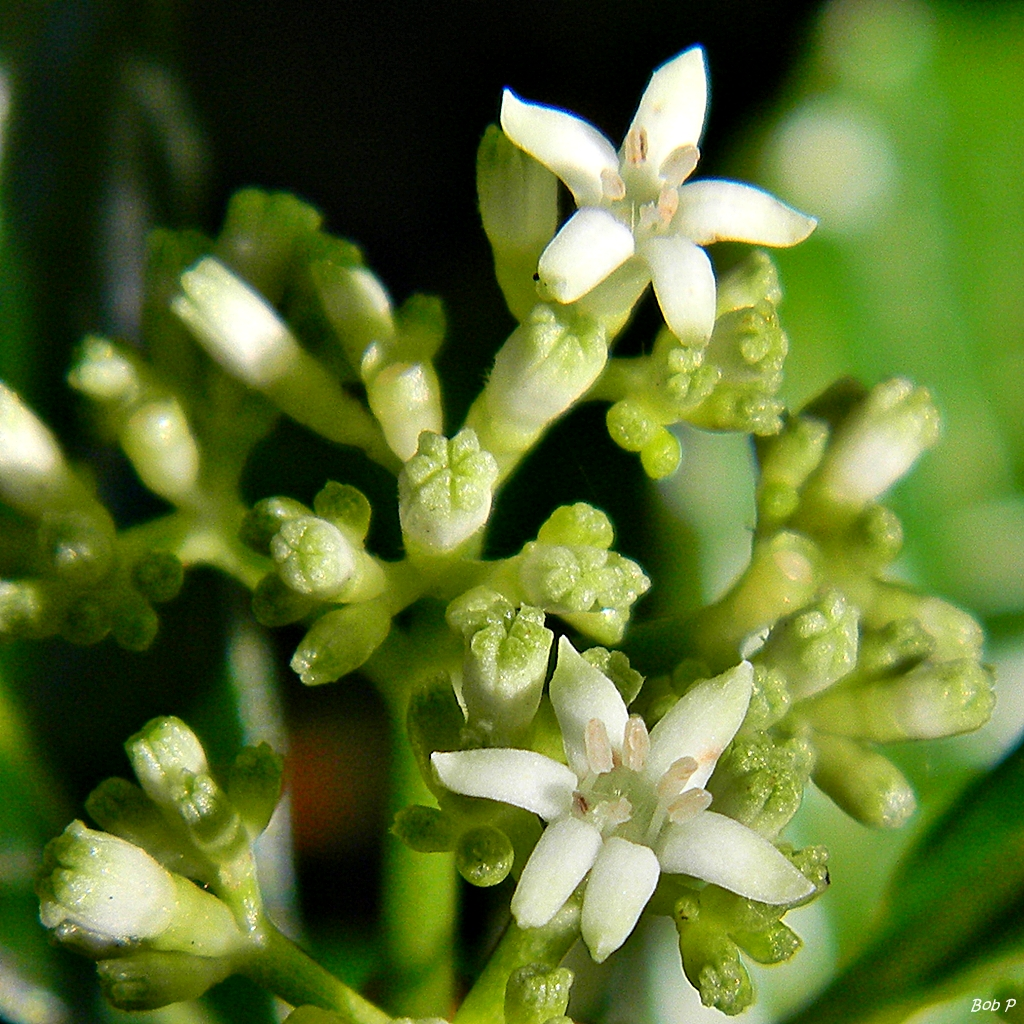 The humble tiny white flowers of the wild coffee plant in a dark cypress shaded marsh. Frenchman's Forest Natural Area (which is presently besieged by mosquitoes), Palm Beach County, Florida. The minute flowers are just a couple of mm across and often listed as "inconspicuous" but they have a powerful and interesting fragrance.